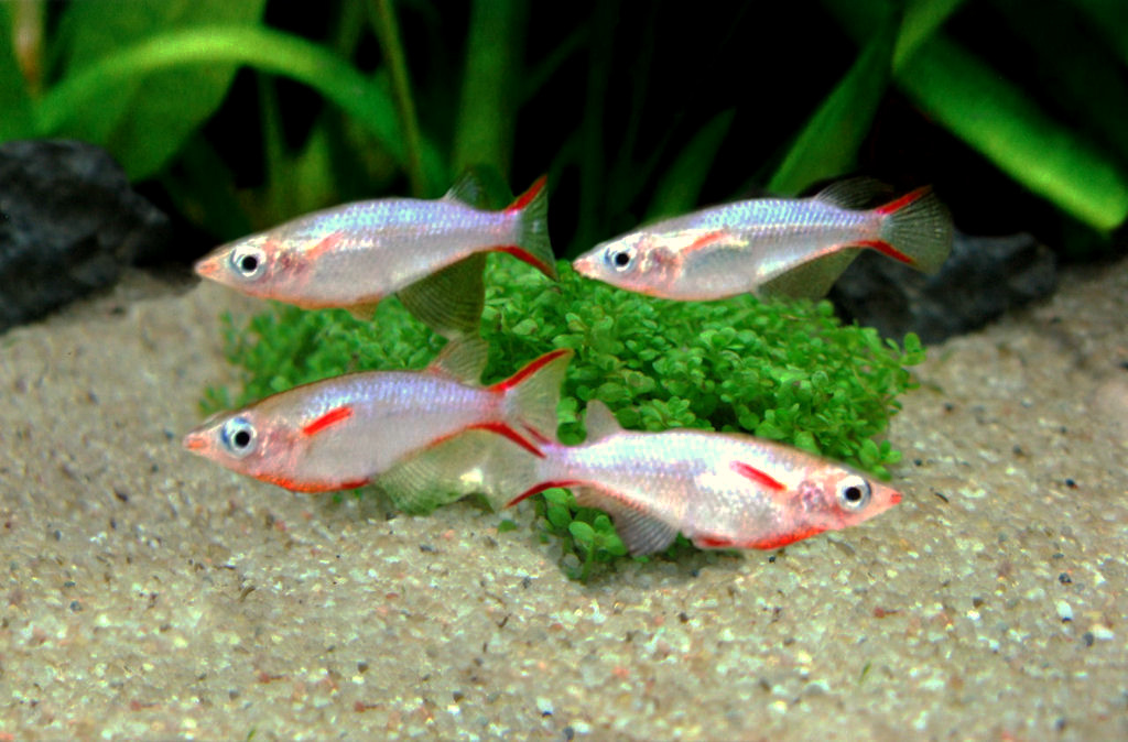 Oryzias woworae